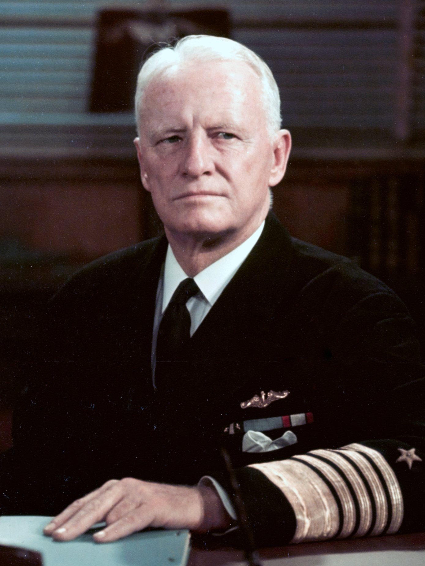 Chester Nimitz while Chief of Naval Operations.